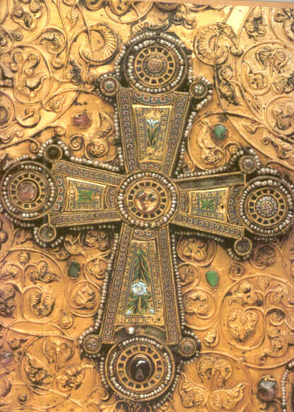 Khakhuli triptych, medieval artwork from Georgia. The Big Decorative Cross